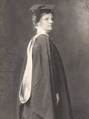 Photograph of Mary Wilhelmine Williams in 1907 or 1908.